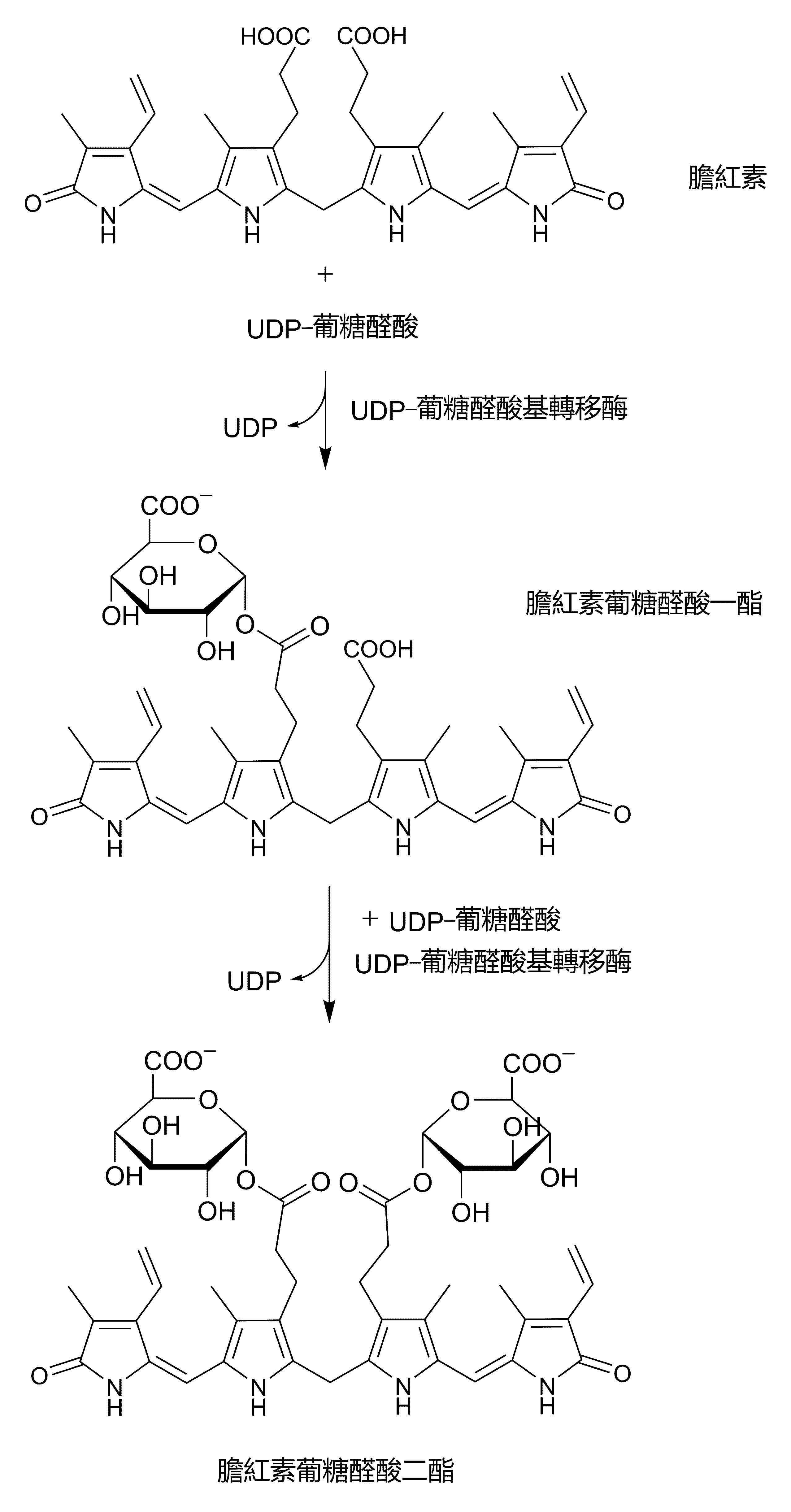 glucuronidation of bilirubin (in Traditional Chinese)